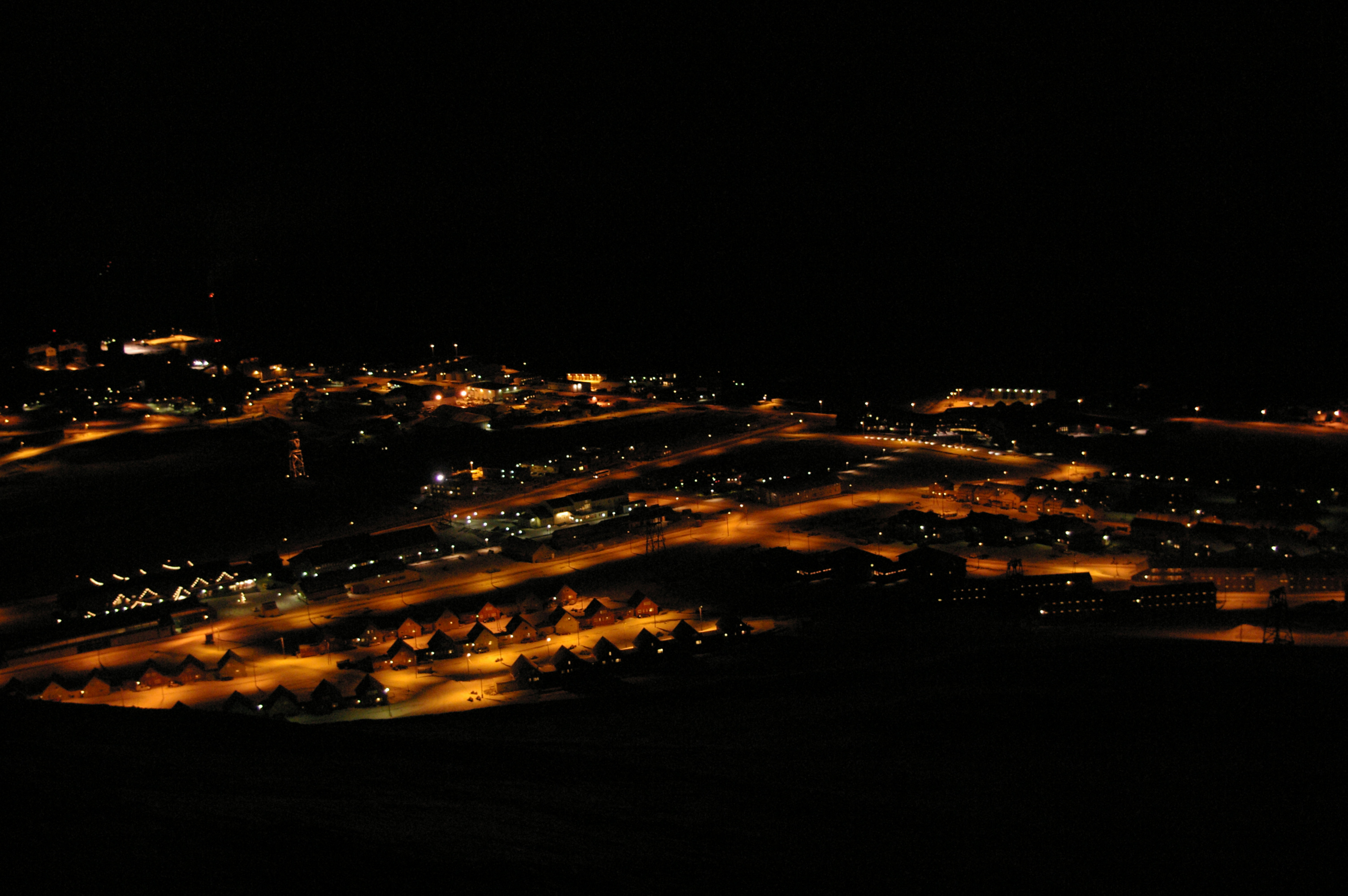 Longyearbyen - Spitsbergen (Svalbard)in the dark season.